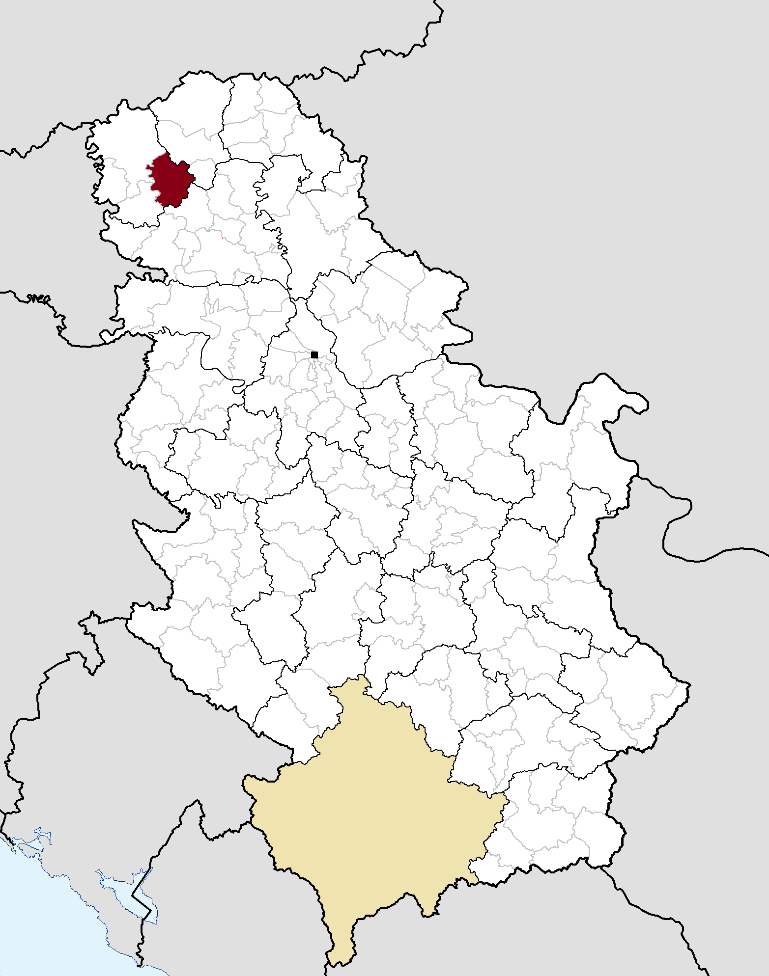 Municipal location in Serbia